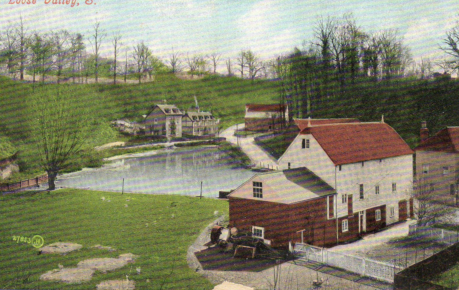 Two watermills in the Loose valley. Lower Crisbrook Mill (foreground) and Upper Crisbrook Mill, Tovil.